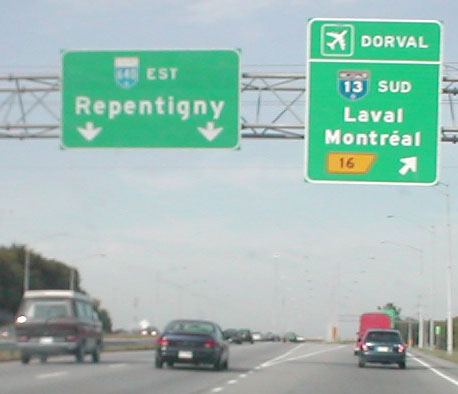 An exit sign assembly on Autoroute 640 east in Quebec. Taken September 14, 2002 by User:SPUI.